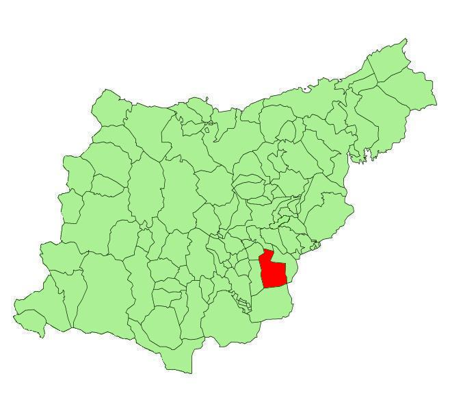 Amezketa municipality in the province of Guipuzcoa